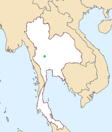 Modified from 800px-locationthailand.svg (Thailand article) to show the range of Pseudochelidon sirintarae (White-eyed River Martin).